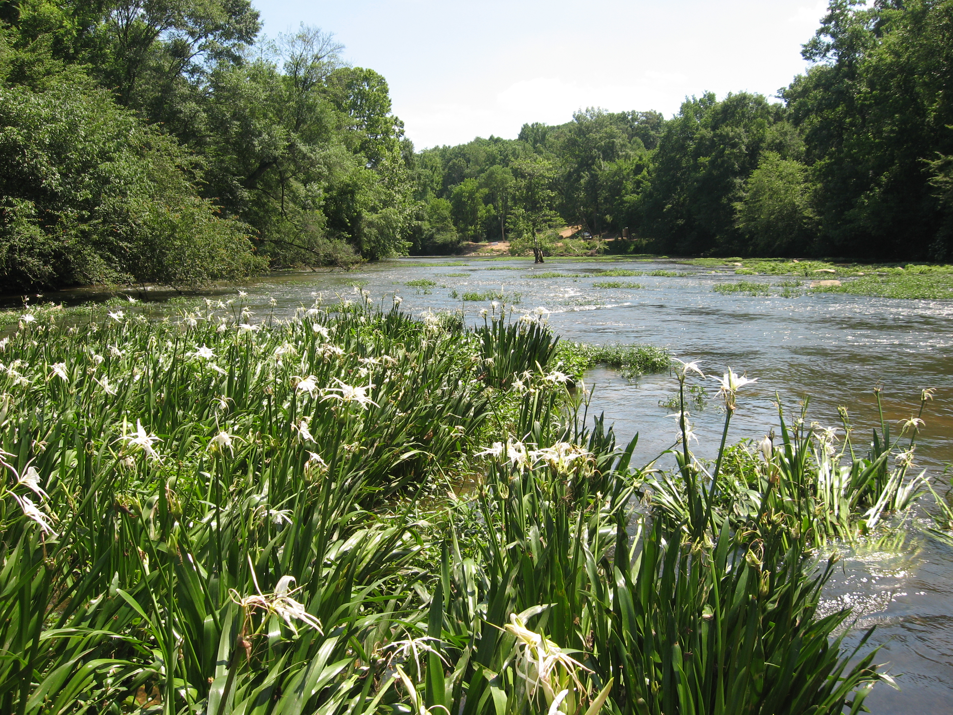 Hymenocallis coronaria on the Locust Fork of the Black Warrior River, Alabama.